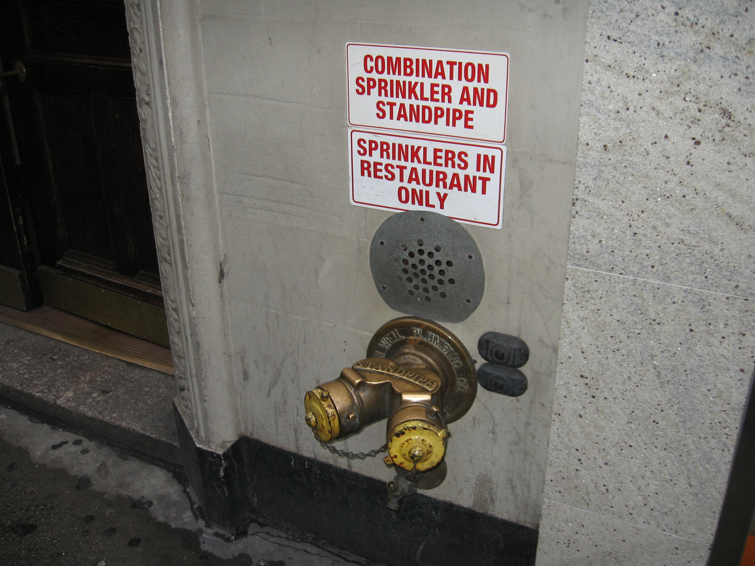 Standpipe and sprinkler connection